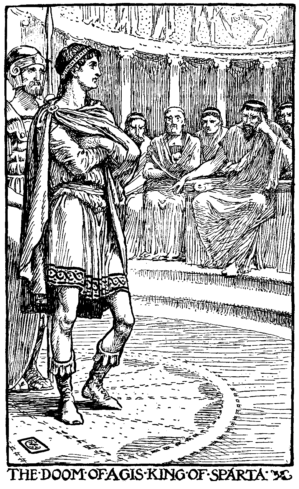 The Doom of Agis, king of Sparta, engraving by Walter Crane. From The Children's Plutarch: Tales of the Greeks by F. J. Gould, Harper & Brothers Publishers, 1910.